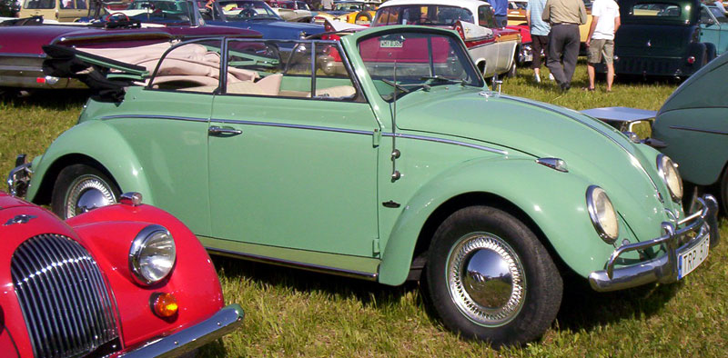 Volkswagen Type 1 1200 Cabriolet 1961.